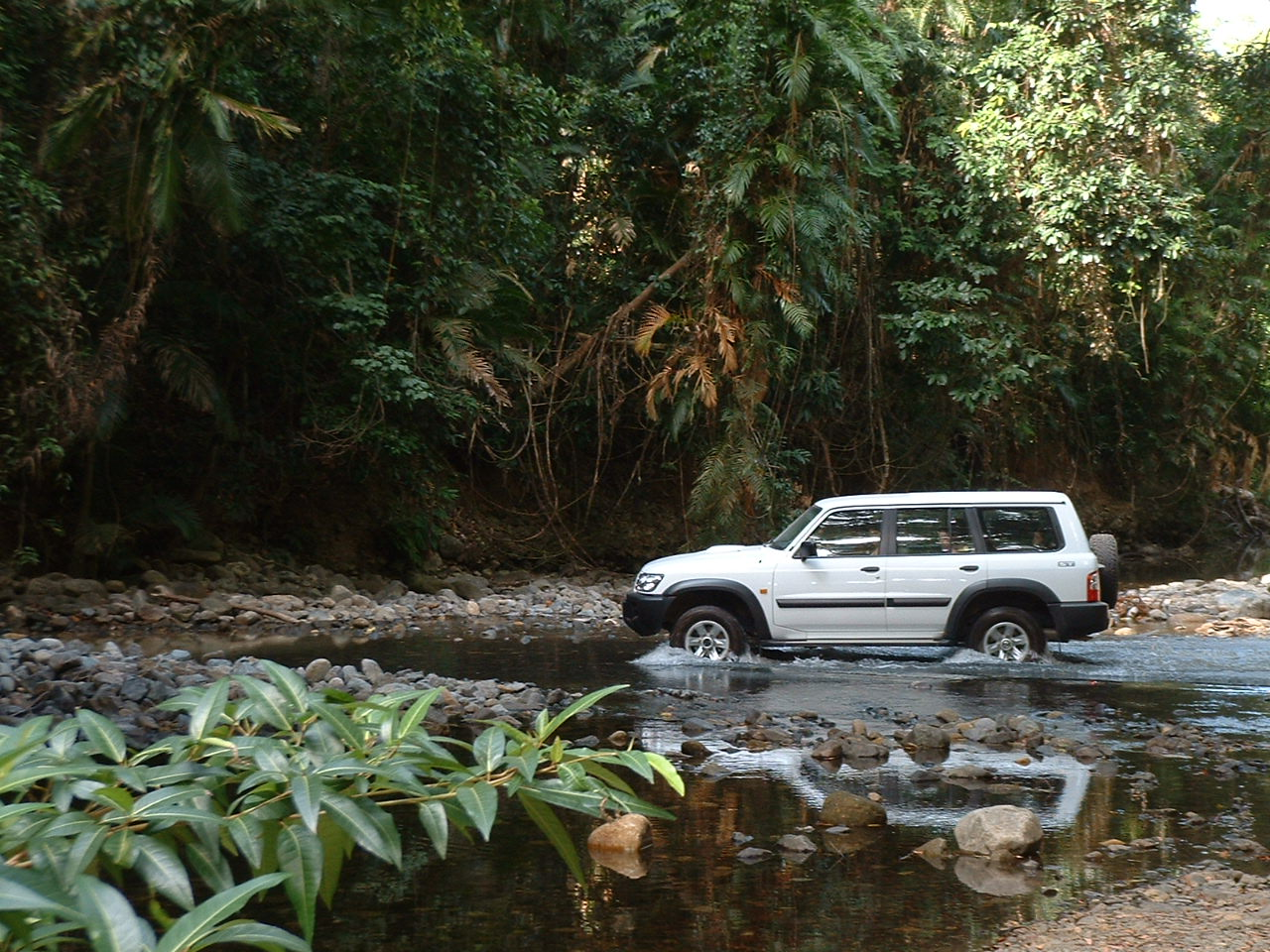 A vehicle crossing Emmagen Creek on the Bloomfield Track north of Cape Tribulation, Queensland, Australia.